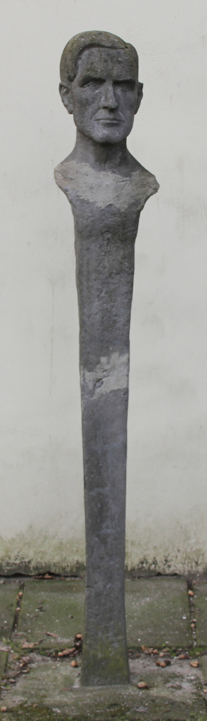 Steles, Theodor Neubauer, Bölschestraße 65, Berlin-Friedrichshagen, Germany